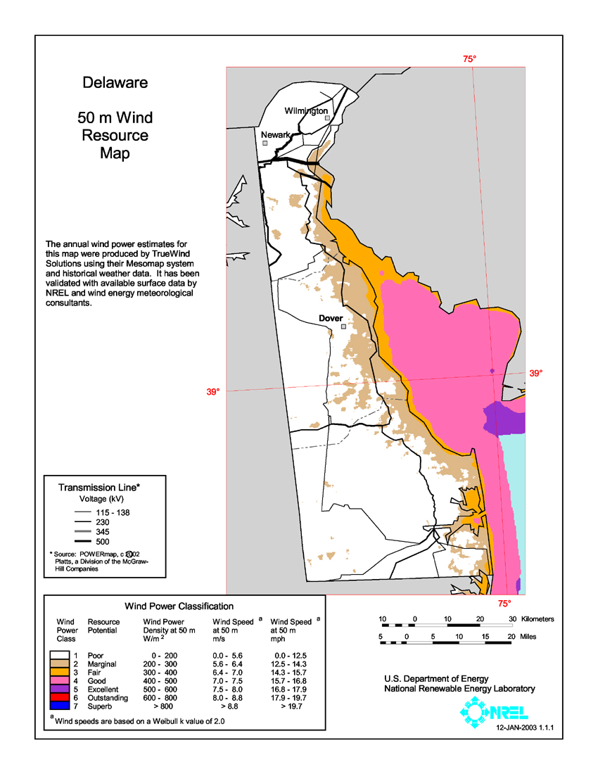 Average annual wind power distribution for Delaware, 50m height above ground, also showing location of existing electrical transmission lines